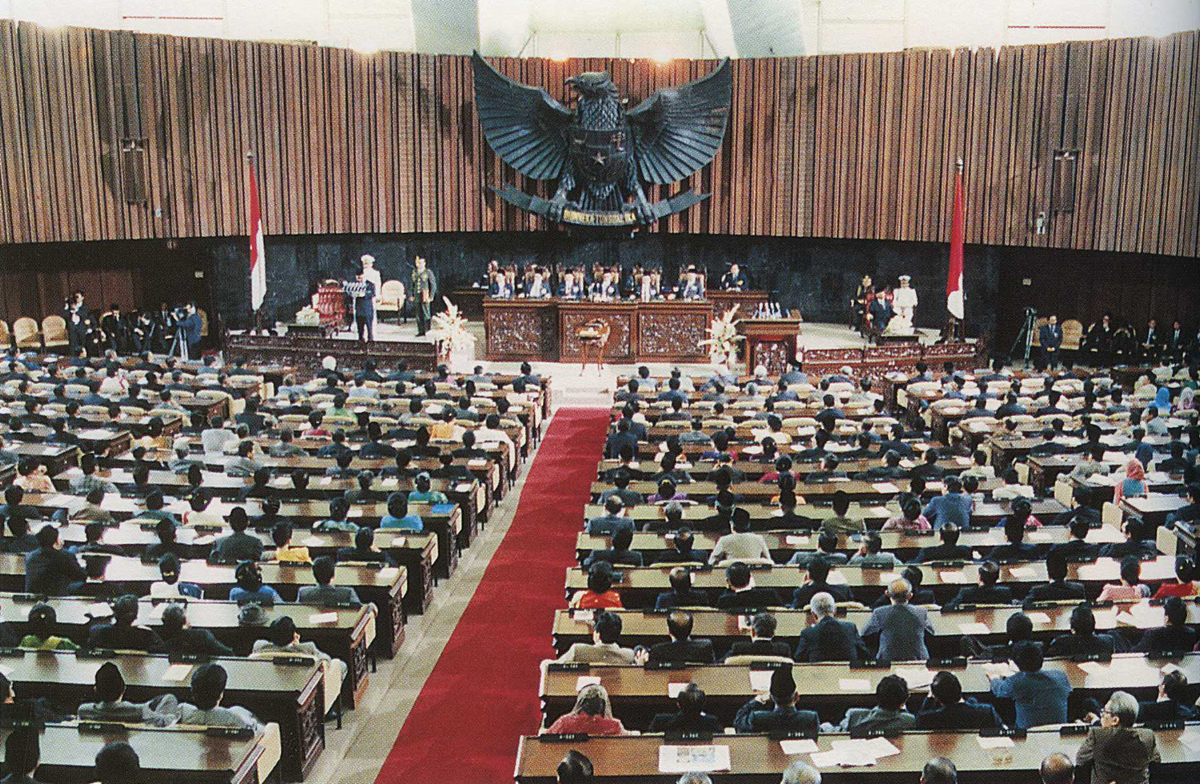 President Suharto delivers his inauguration speech for the sixth time as President of Indonesia during the People's Consultative Assembly General Session on 11 March 1993.